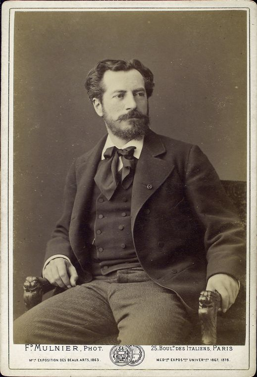 French sculptor Frederic Auguste Bartholdi early in his career